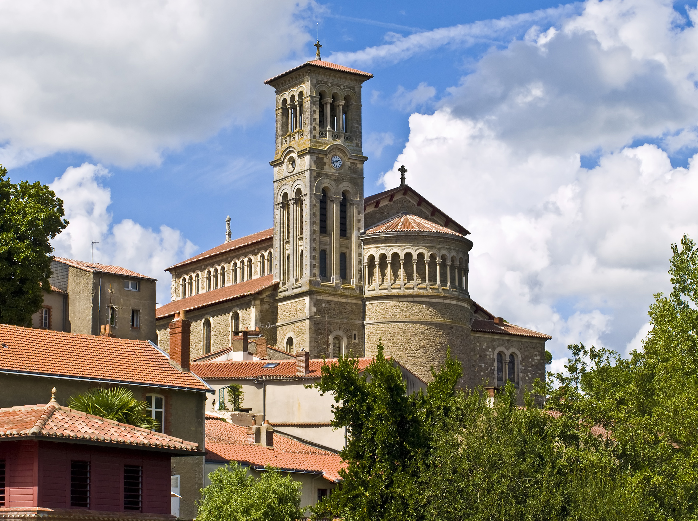 Notre-Dame church, in Clisson, near Nantes, in France.